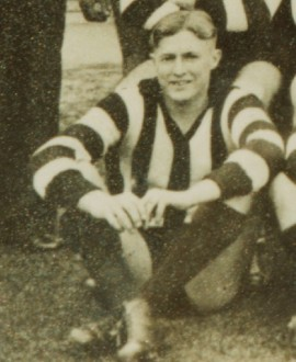 Photograph of Dan Knott in 1941